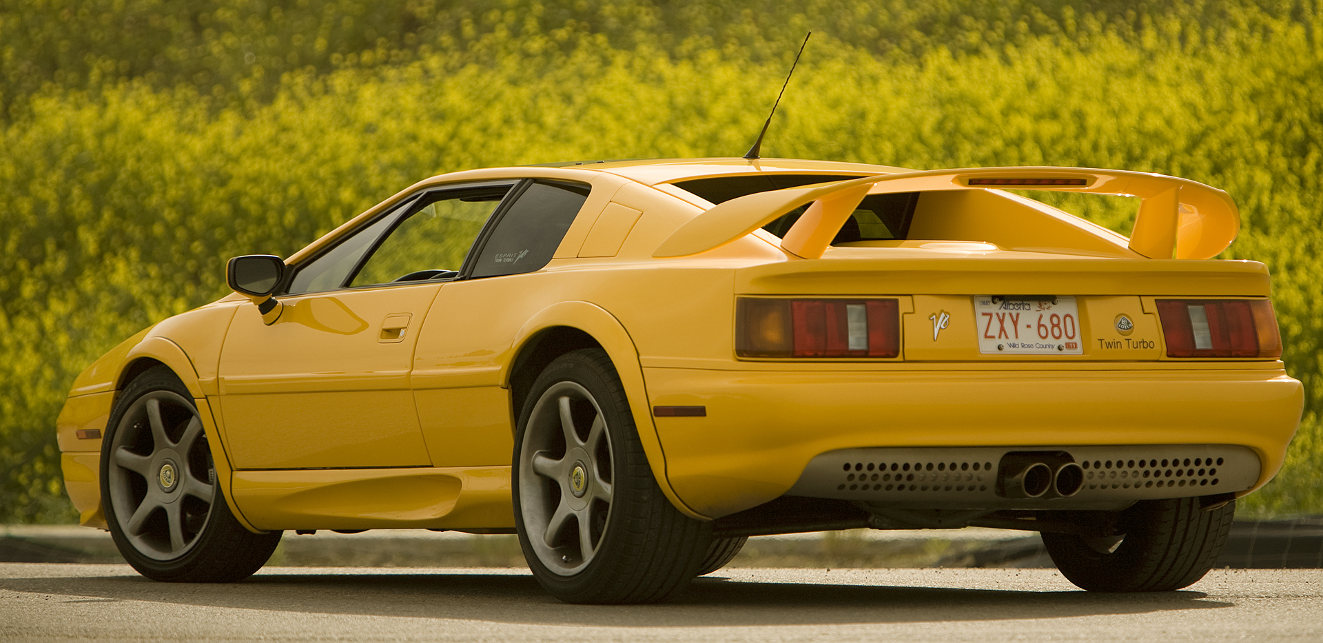 Rear 3/4 view